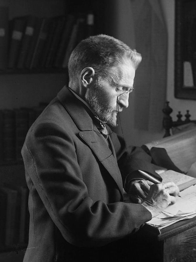 Eliezer in his house in Talpiot neighbourhood.